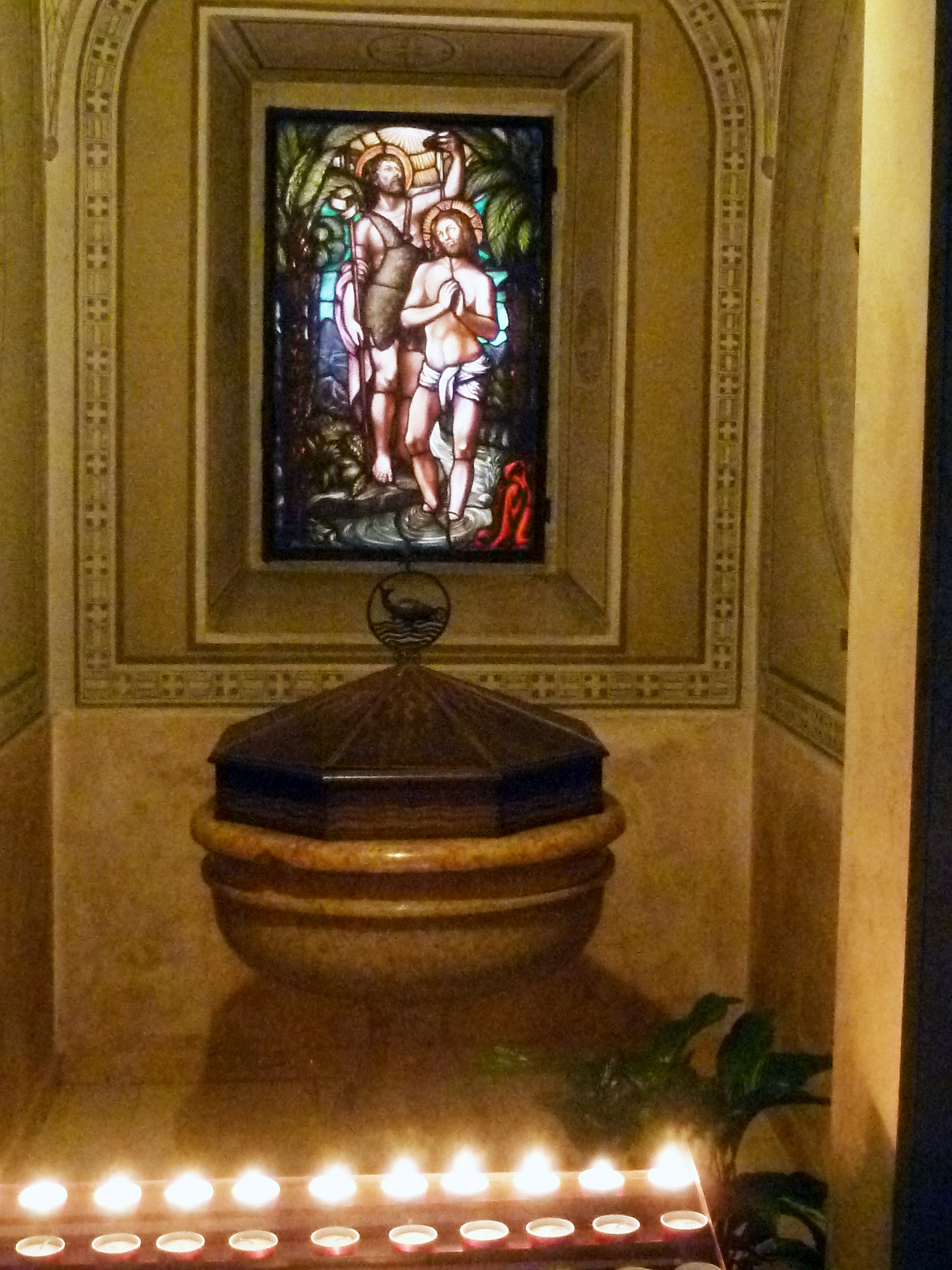 Baptistery with stained-glass window "Baptism of Jesus by John the Baptist" in the Church of S. Nicolò e S. Severo, Bardolino, Italy